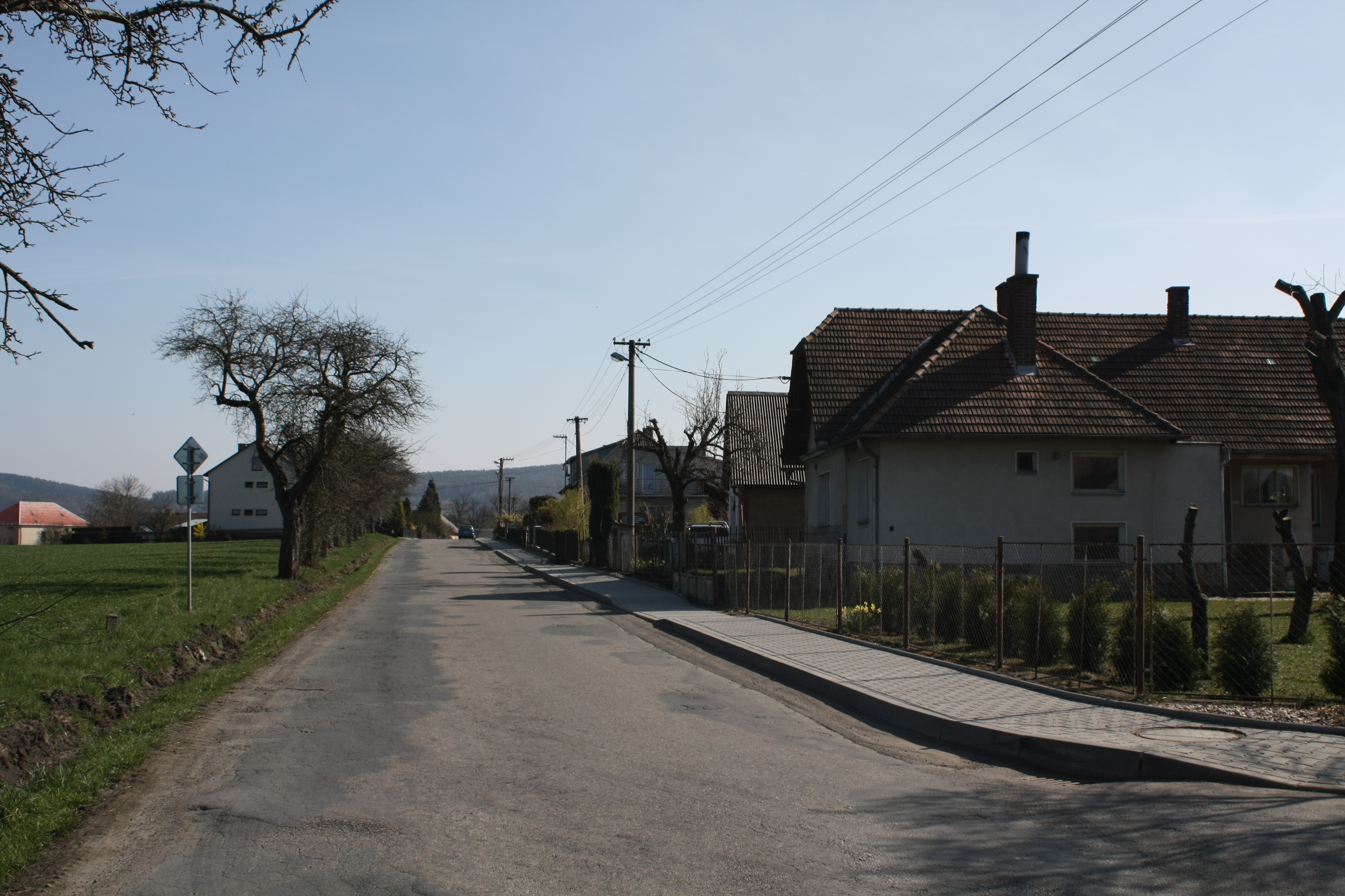 Bojiště, Havlíčkův Brod district, Czech Republic Object location49° 40′ 14.58″ N, 15° 17′ 11.32″ E